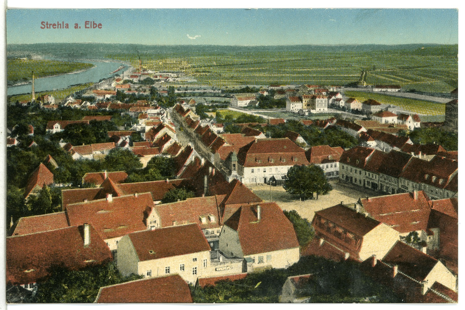 This postcard is from publisher Brück & Sohn in Meißen ( This postcard has a unique number 13664 and is available in a higher resolution at the publisher. This images was uploaded in a cooperation project between Wikipedians and the publisher.